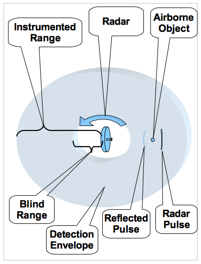 Image depicting the nature of the radar envelope.